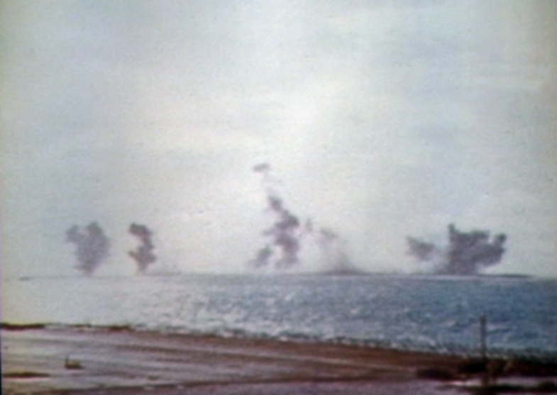 Eastern Island, Midway Islands, under attack, 4 June 1942.